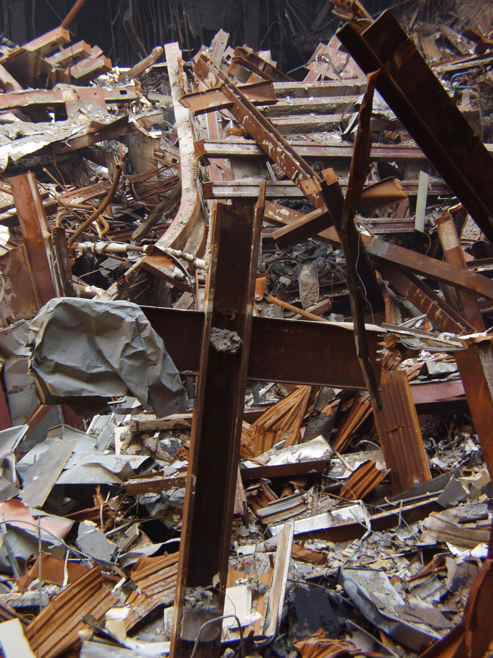 New York, NY, September 26, 2001 -- Piles of rubble and debris are all that remain of the 110-story twin towers of the World Trade Center and several of its neighboring buildings. In Building 6, firefighters have found pieces of the towers that resemble crosses. They have dubbed the building "God's House." Photo by Mike Rieger/ FEMA News Photo